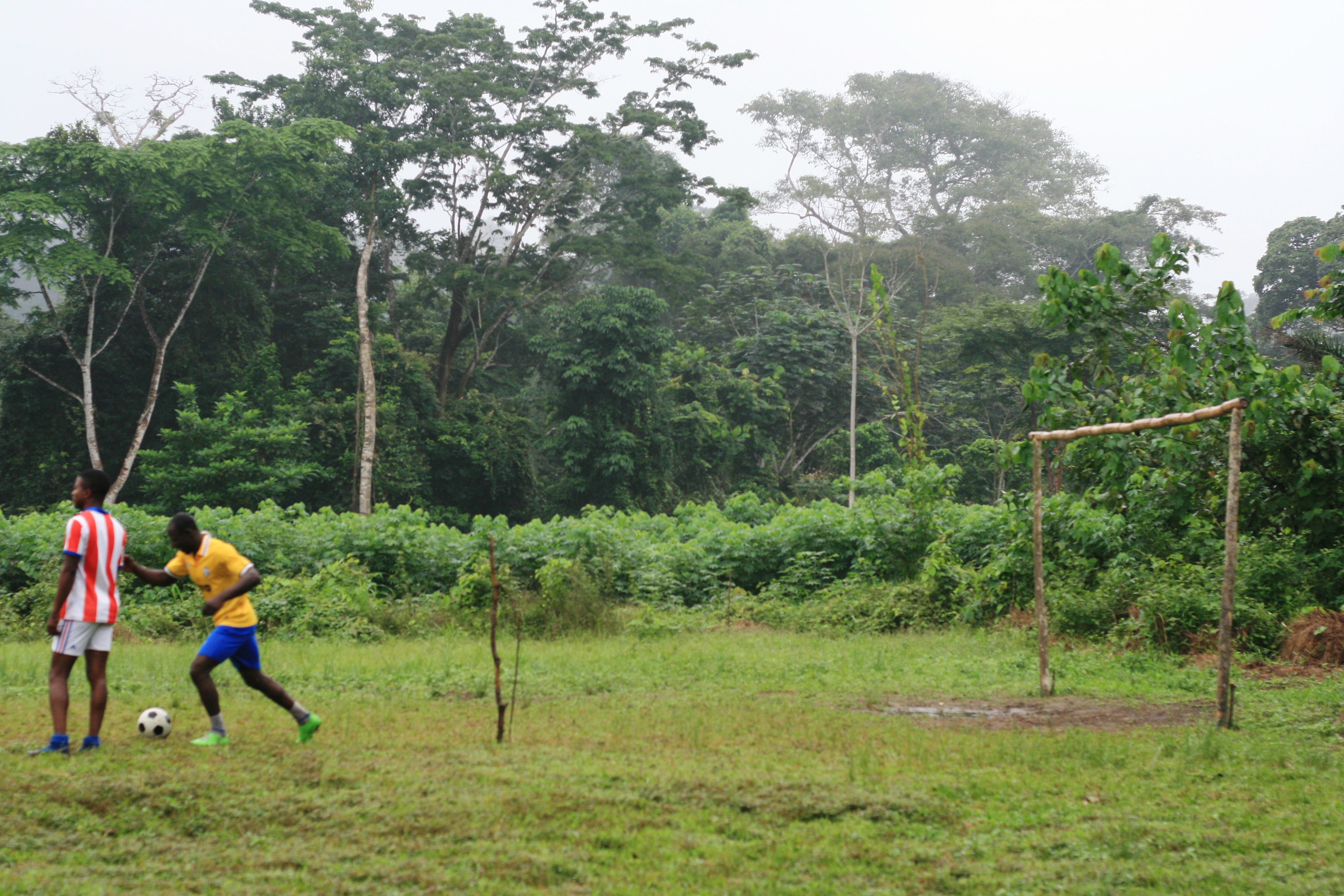 Football game in Tayap (Cameroon)